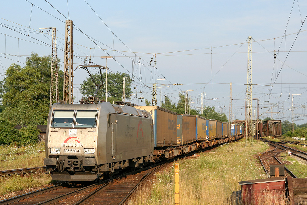 A class 185 locomotive by TX-Logistik, a private German rail freight operator